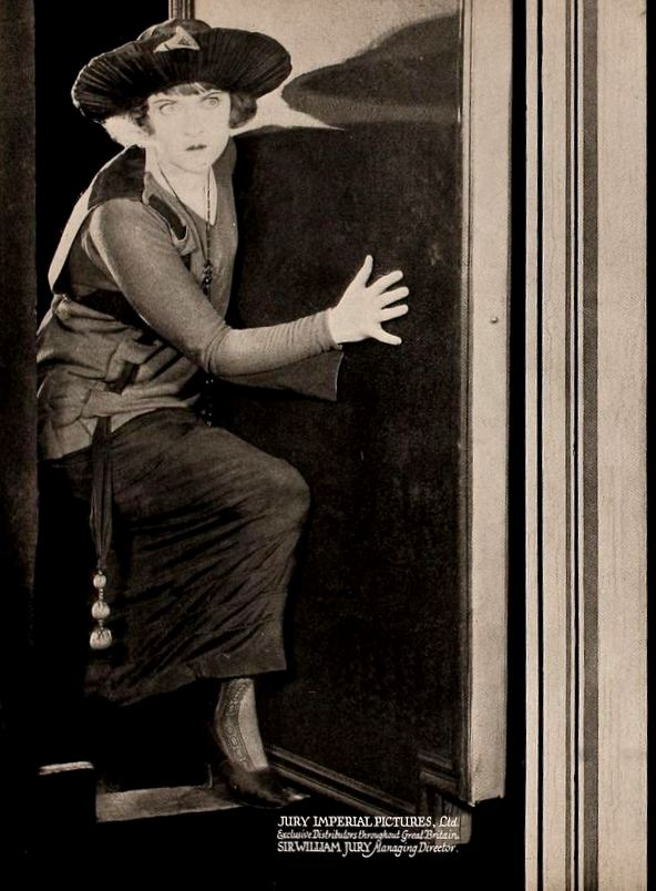 Still with May Allison from the American drama film The Cheater (1920), on page 3864 of the April 24, 1920 Motion Picture News.